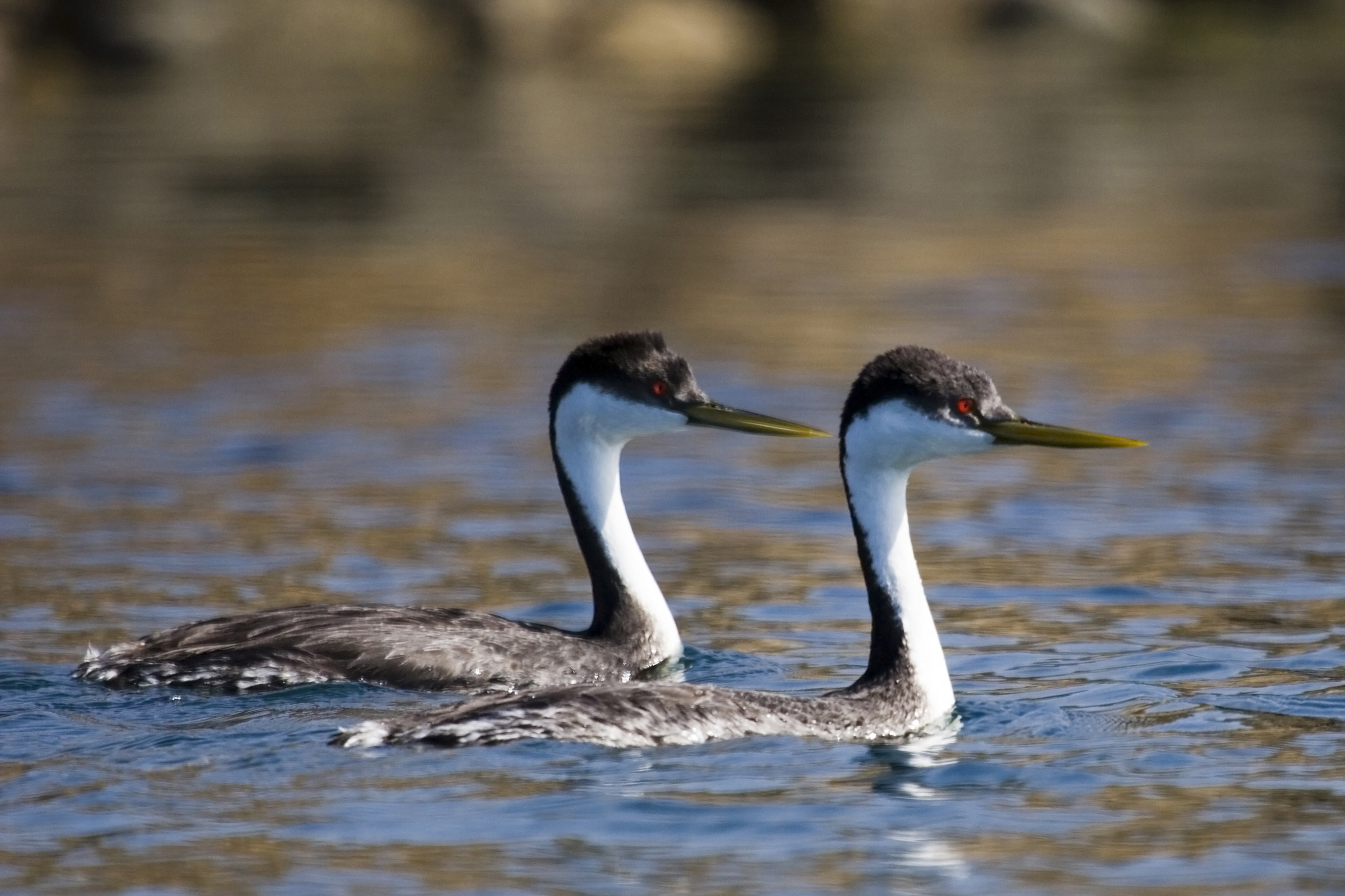 Western Grebes (part of a flock of about 30, including at least one Clark's Grebe not shown here), Morro Bay, CA 5-2-07 - Photo by Mike Baird Canon 20D 100-400mm IS lens handheld from an outrigger canoe, with the aperture wide open.